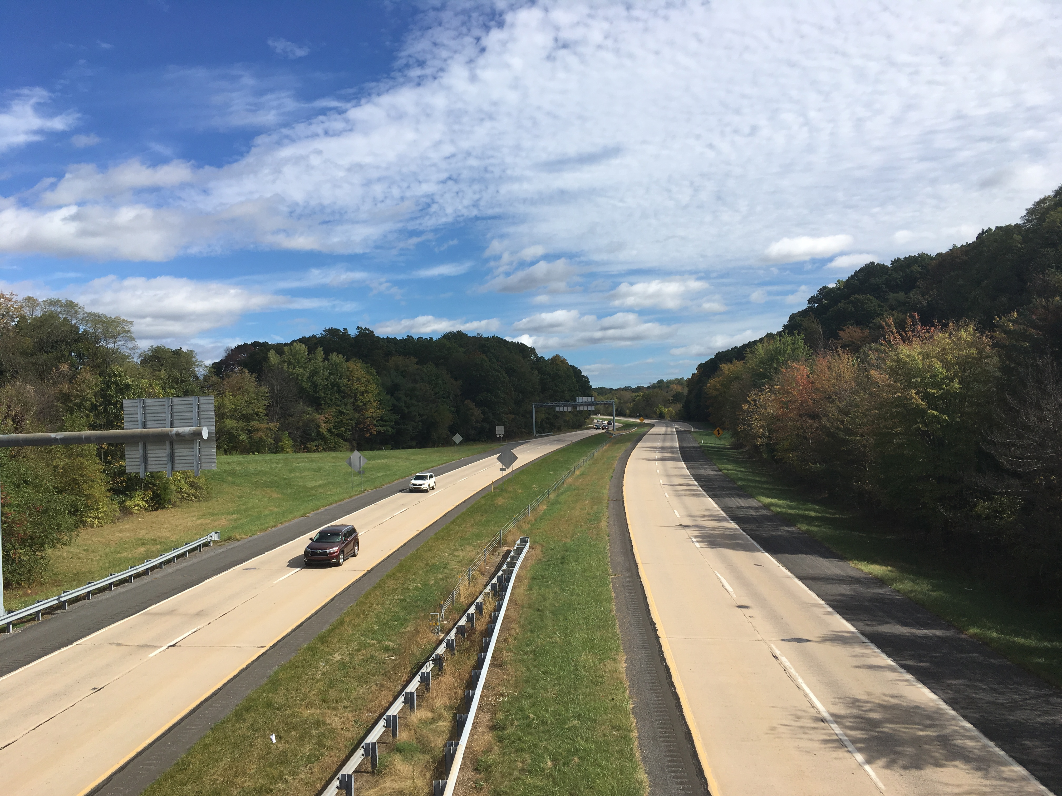 Northbound U.S. Route 202 freeway past the interchange with Main Street in Doylestown, Pennsylvania